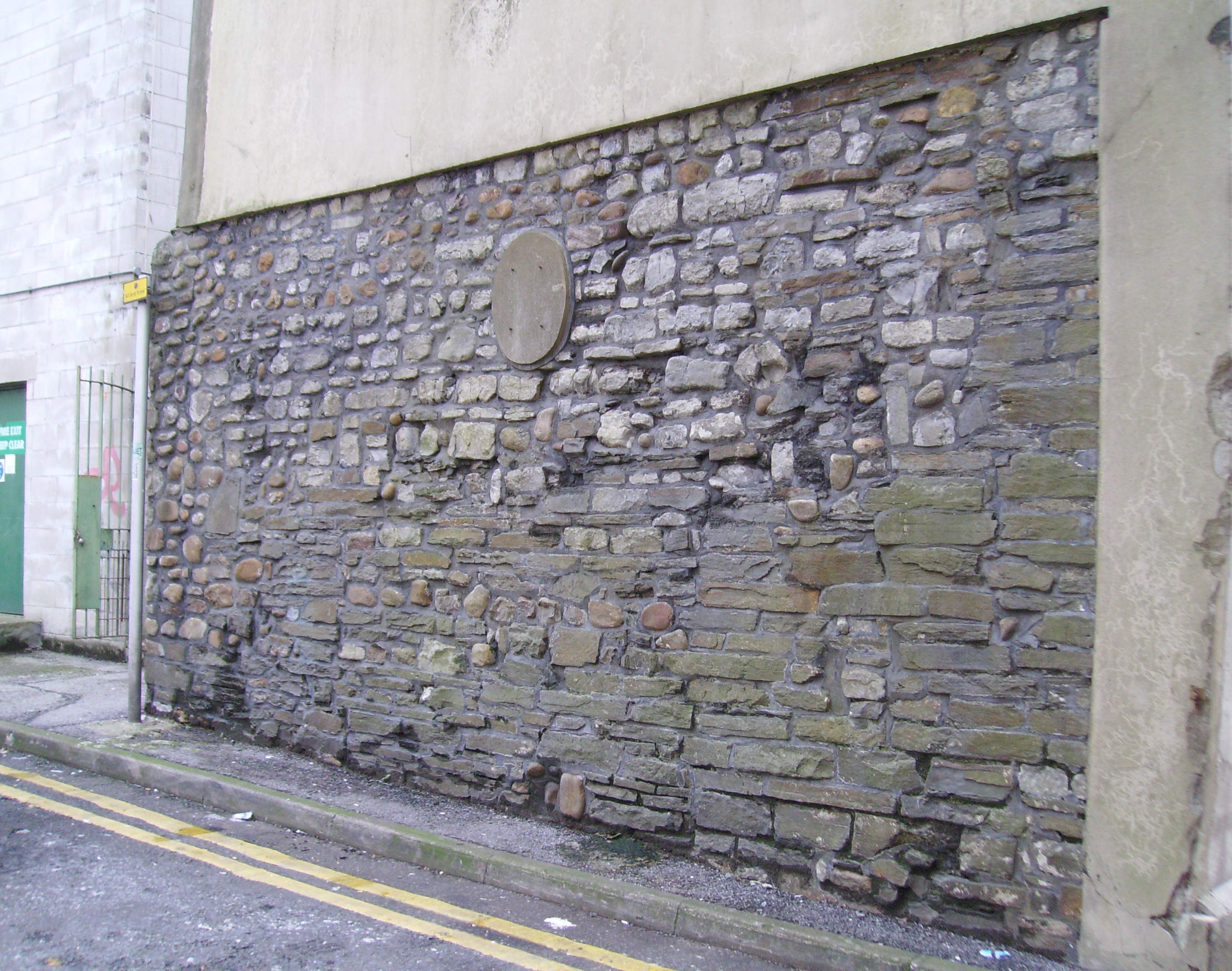 Medieval town wall, Kingsway, Cardiff, Wales[1]